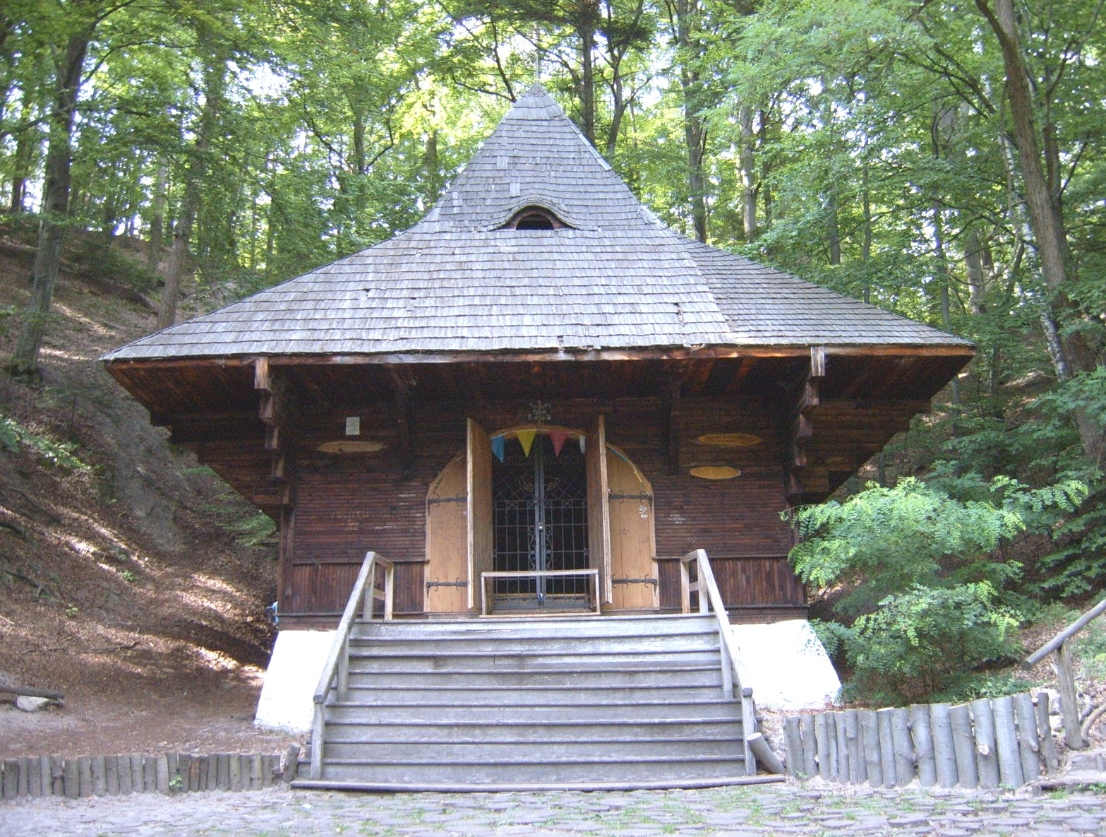 Saint Roch chapel in Krasnobród